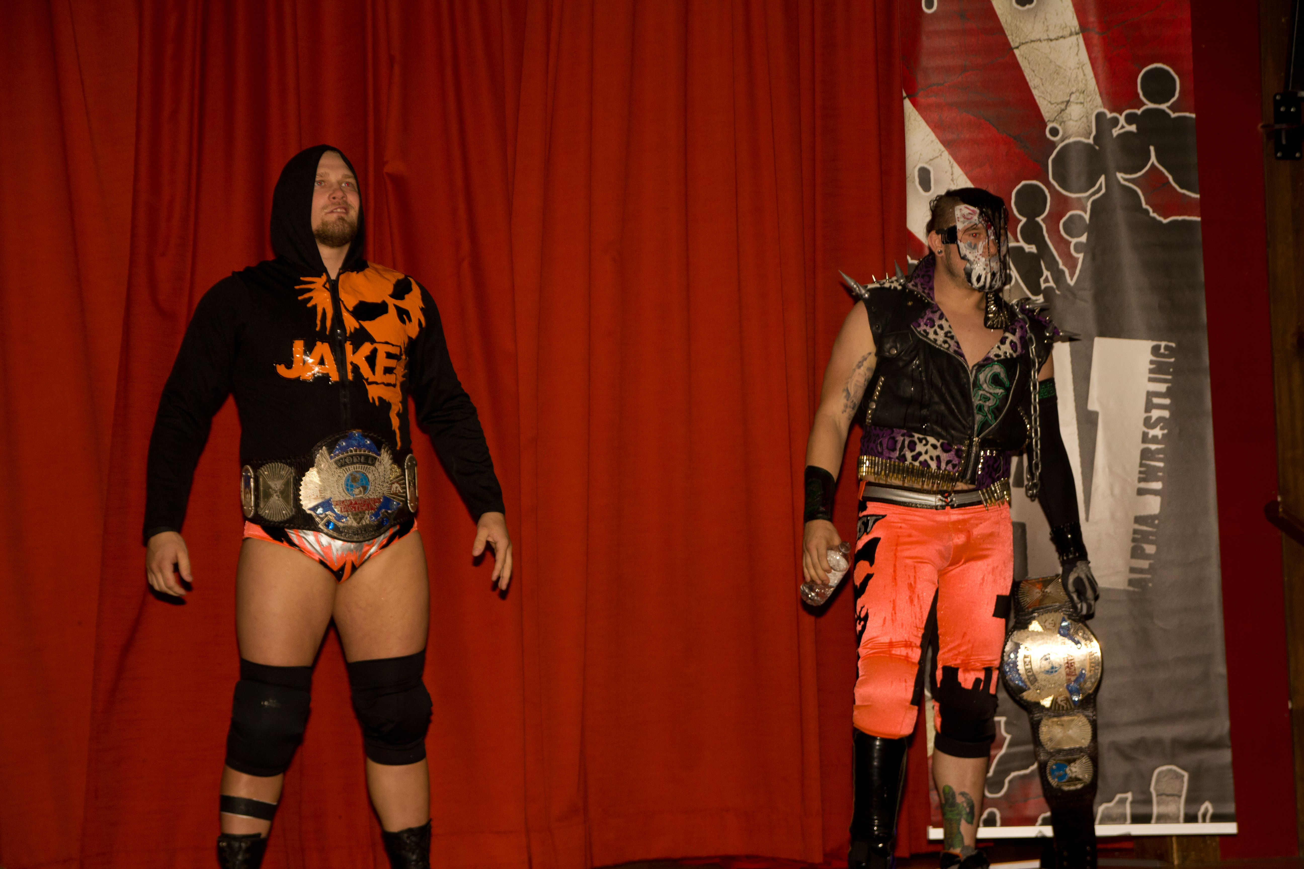 Professional wrestling tag team Irish Airborne making their ring entrance carrying the Alpha1 tag team belts